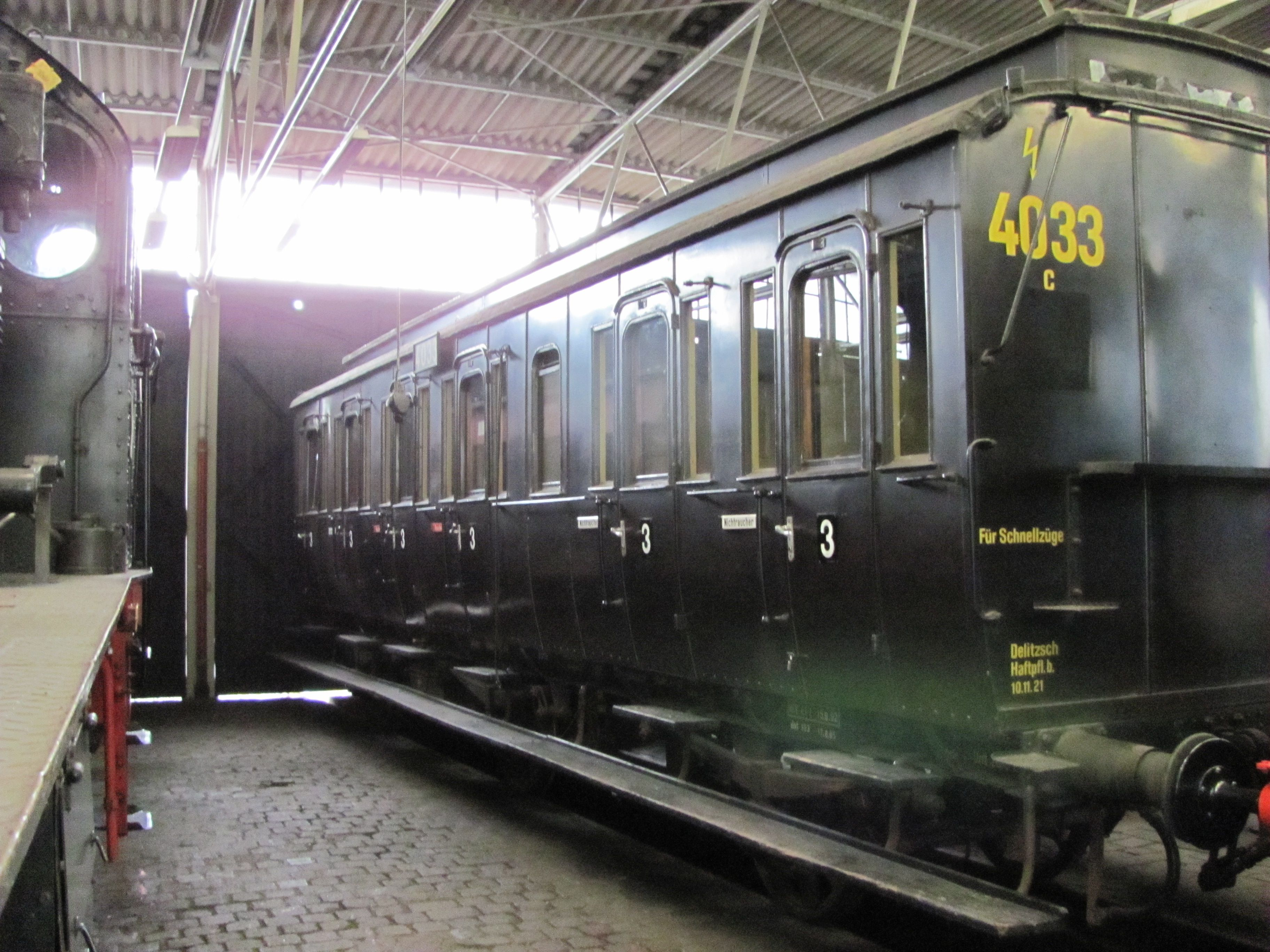 Prussian compartment-coach, 3rd class